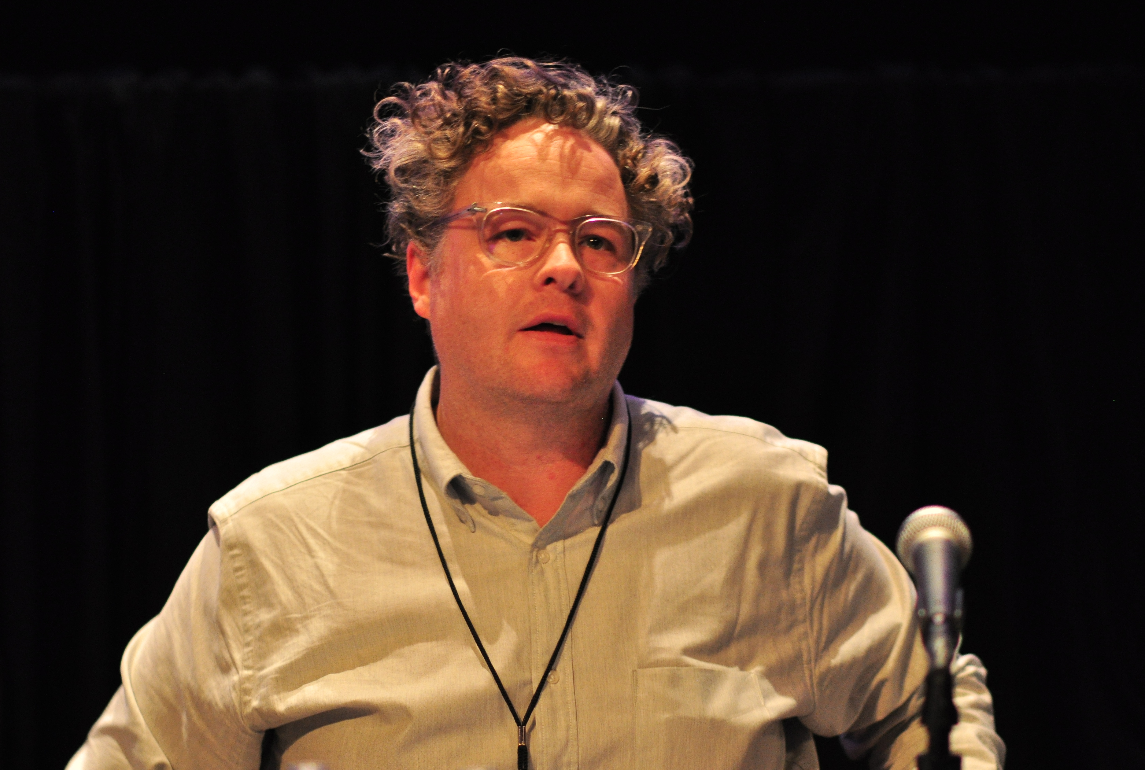 Sean Nelson on the "New Wave Invasions and Evasions" panel, Saturday, April 18, 2015, Pop Conference 2015. JBL Theatre, EMP Museum, Seattle, Washington.